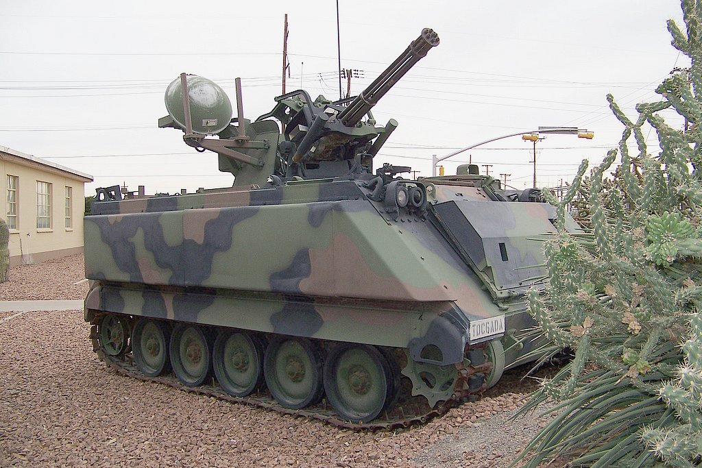 M163 on display at Fort Bliss, Texas.